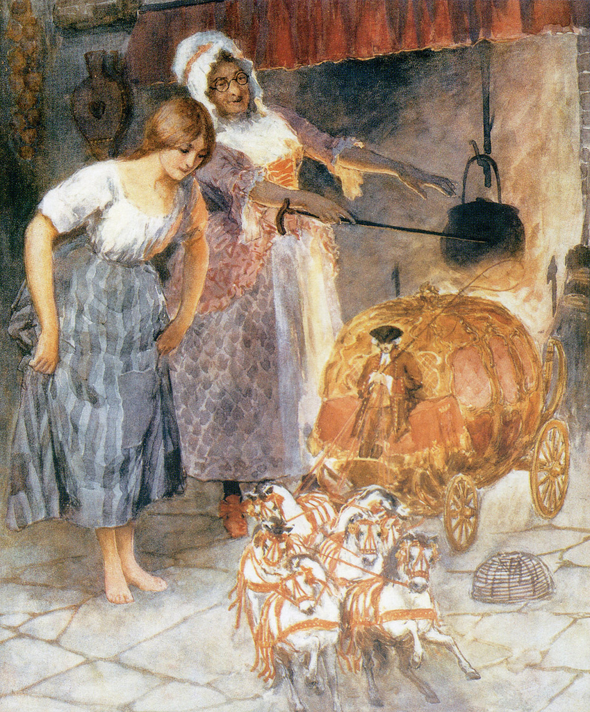 Appears to be from Favourite Stories from Grimm (retold by Edward Shirley) as stated on this Flickr page. The book was illustrated by William Henry Margetson. The estimated date for that book range from 1904 at this hobbyist blog, to 1905 by a bookseller and to circa 1910 in "Mirror Mirrored: A Grimms’ Abecedarium".